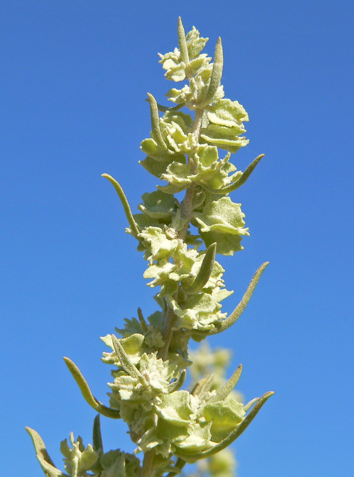 Atriplex canescens var. canescens in Red Rock Canyon, southern Nevada